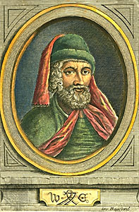 William Caxton, English etching.